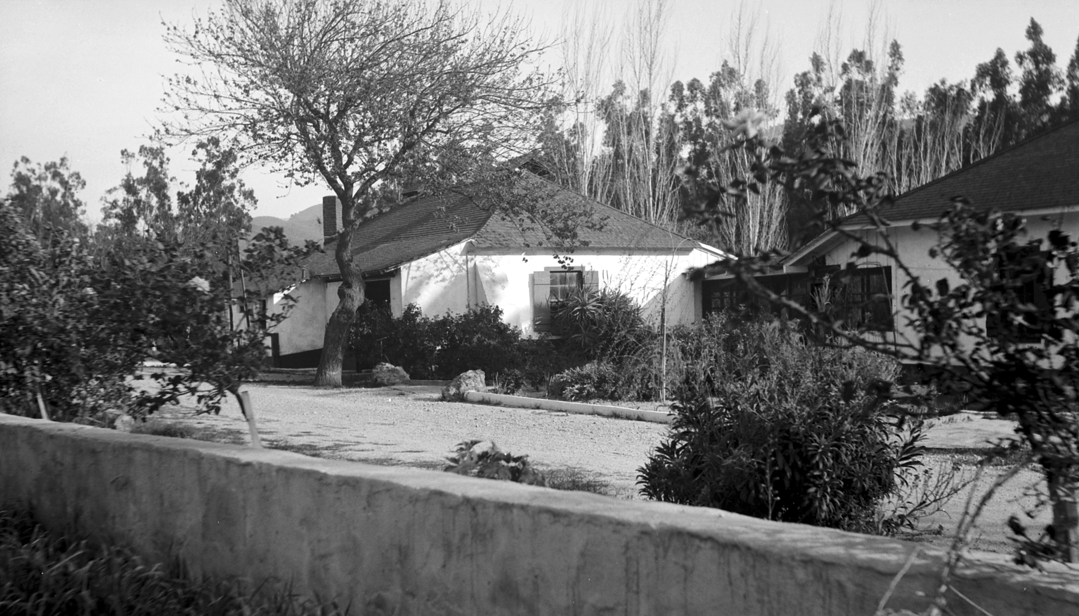 Rancho Camulos in Piru, California, listed on the National Register of Historic Places. View from the northwest.